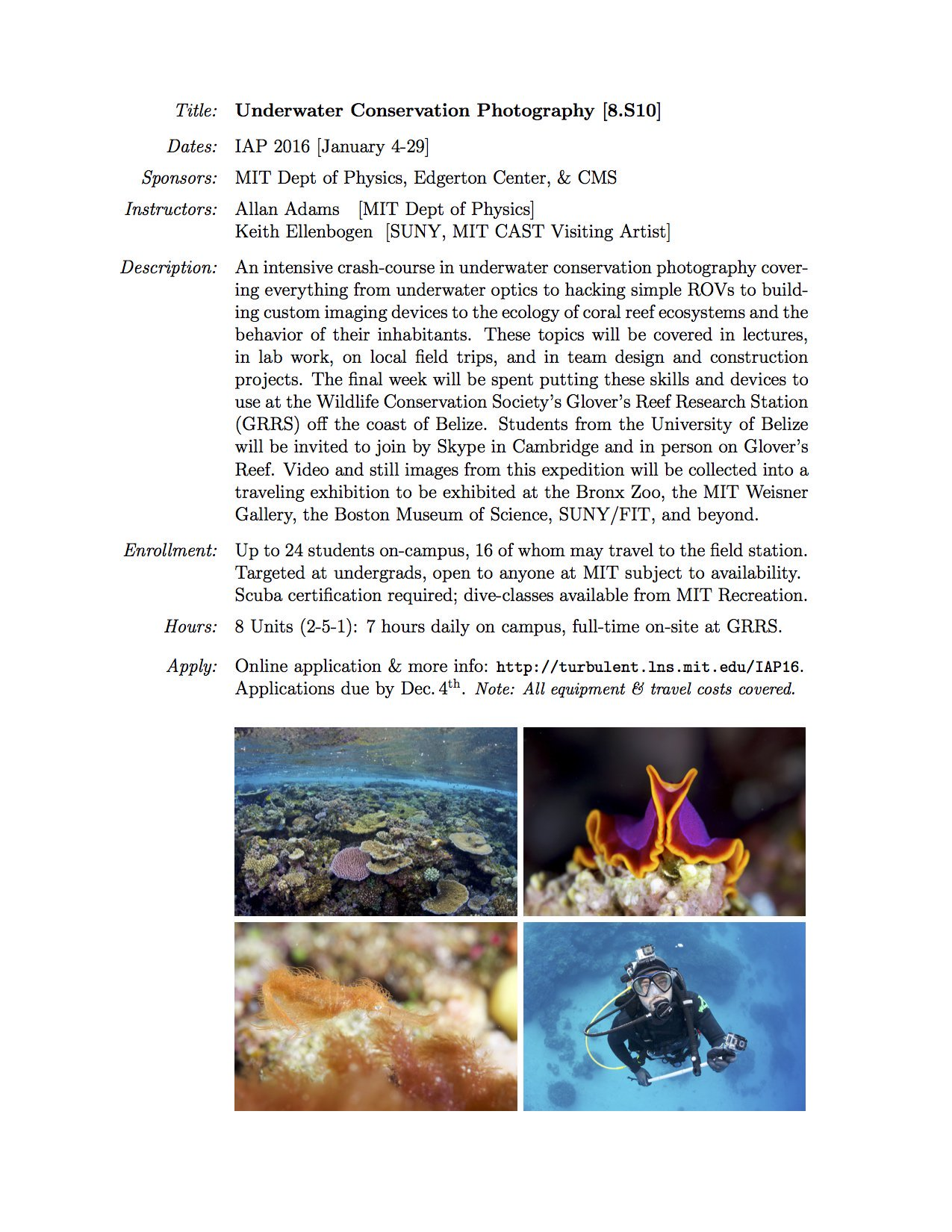 Intro and registration notice for MIT Course Underwater Conservation Photography